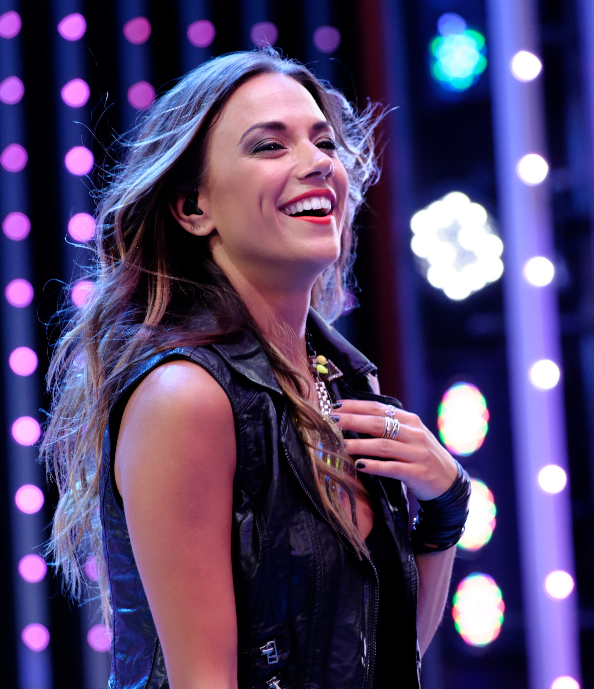 Jana Kramer performing live at 5 Towers on Universal CityWalk in Universal City (Los Angeles) California on Thursday July 24th, 2014.